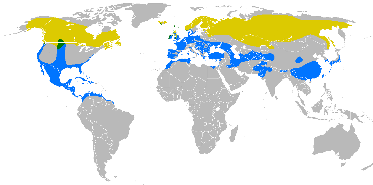 Merlin Falco columbarius distribution map Yellow: breeding summer visitor Green: breeding resident Blue: non-breeding winter visitor